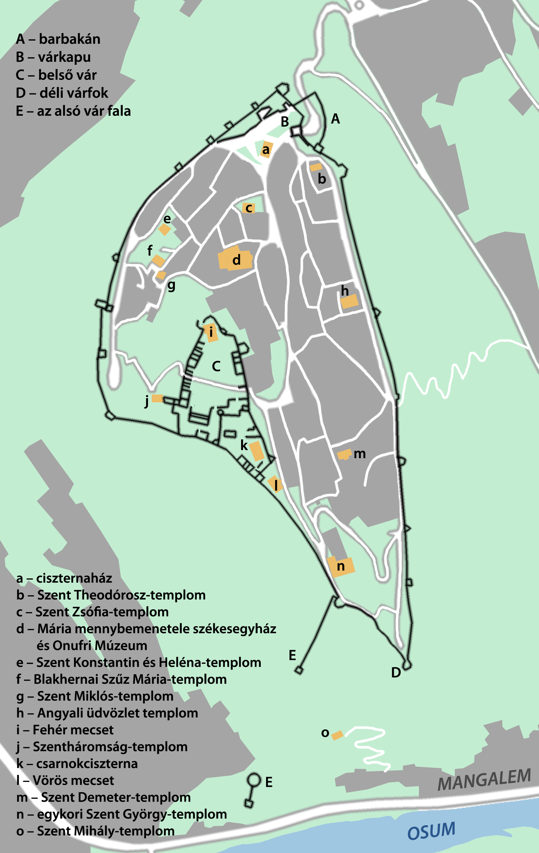 Map of the Berat Castle with Hungarian legend